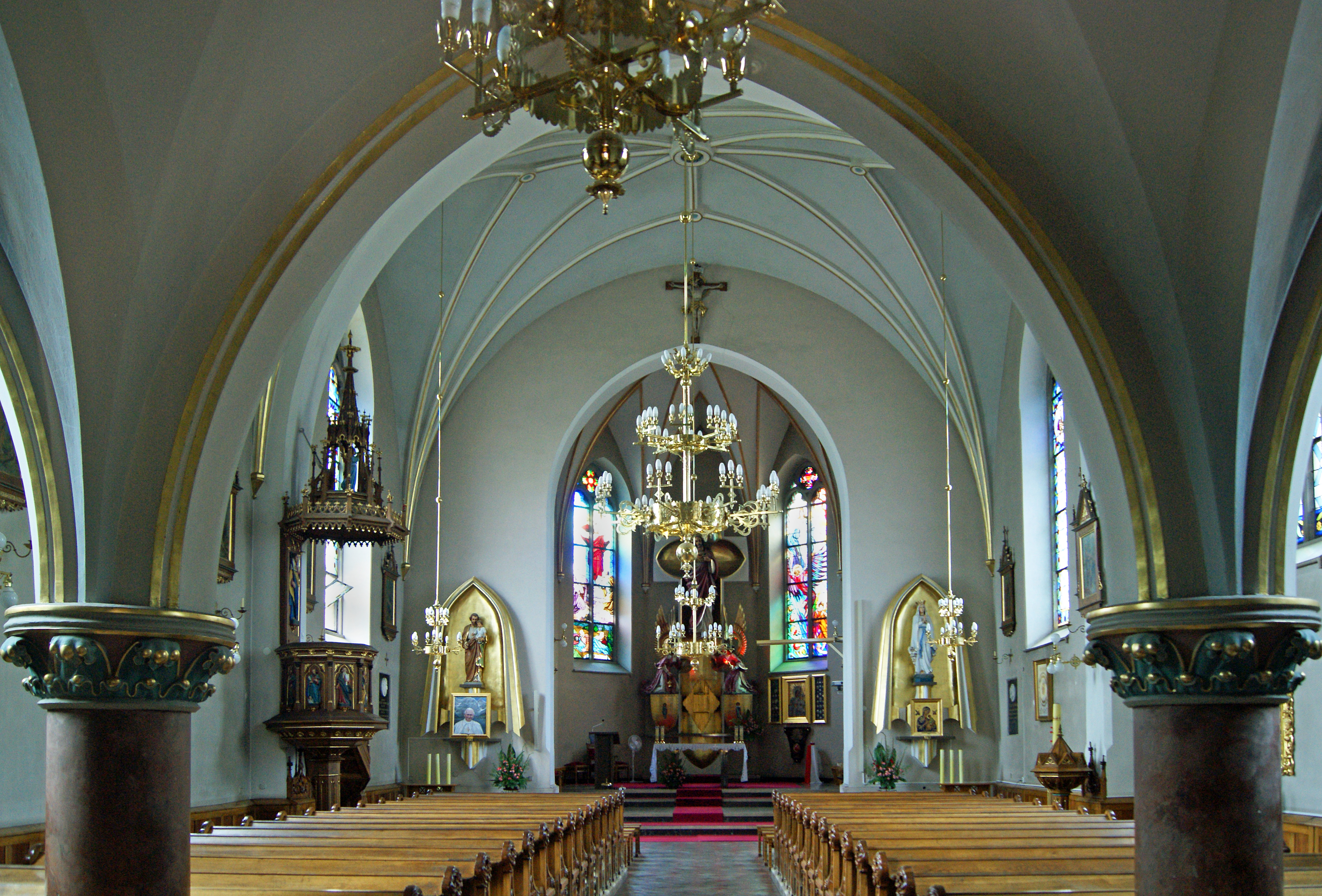 Church of the Sacred Heart of Jesus (1923 design. by Kazimierz Brzeziński), interior, 144 Cechowa street, Krakow, Poland